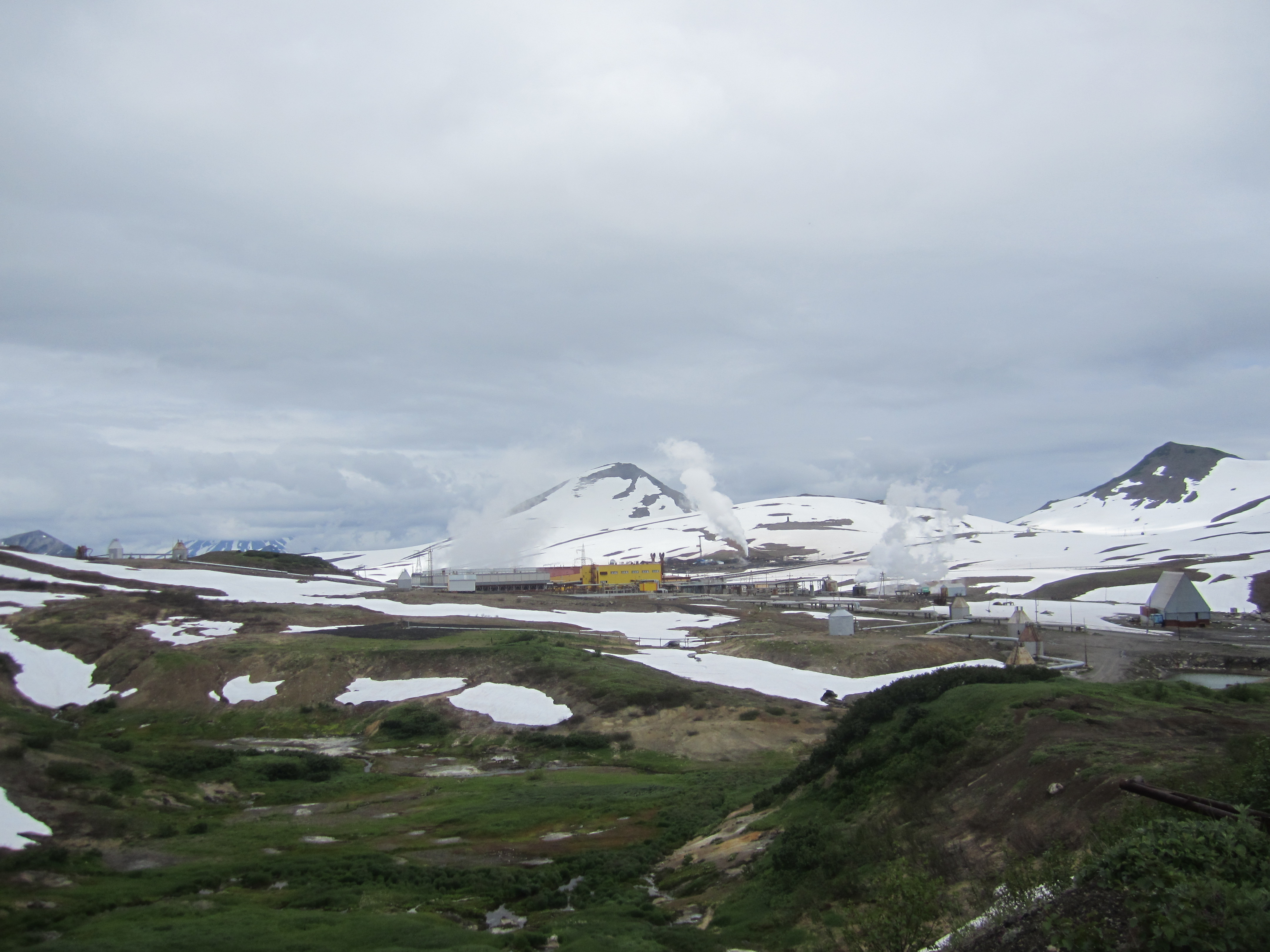 Mutnovsky GeoTES